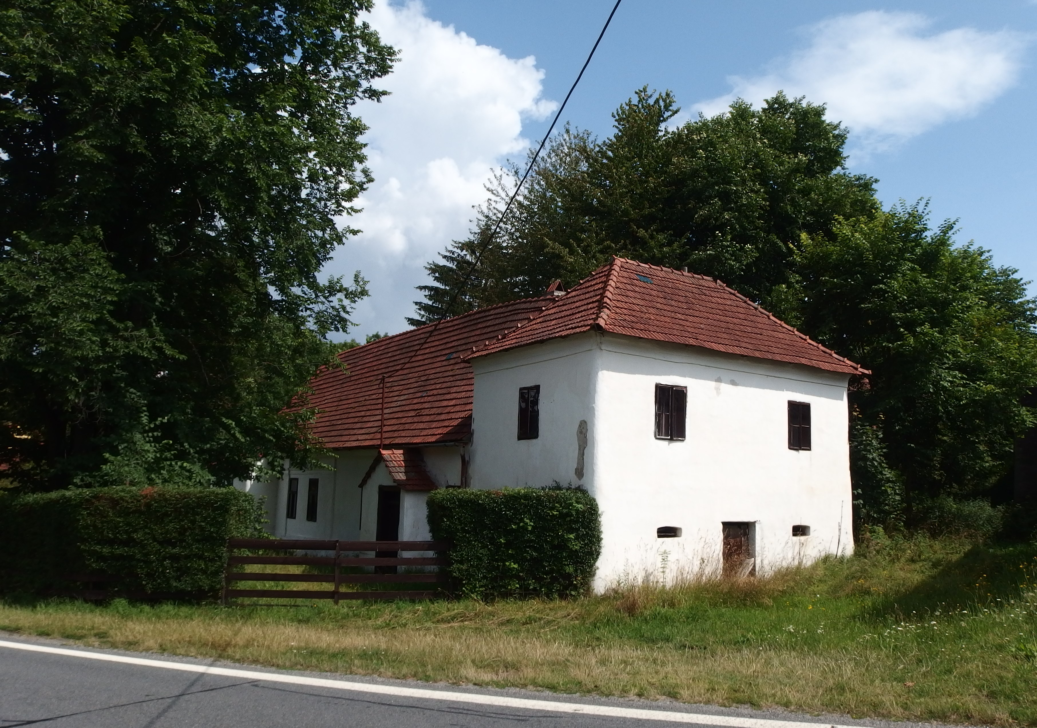 Rodkov, Žďár nad Sázavou District, Czechia. Аҧсшәа: Rodkov, Kreis Žďár nad Sázavou, Tschechien.